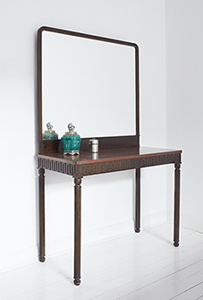 Axel Einar Hjorth, Sminkbord för Nordiska Kompaniet